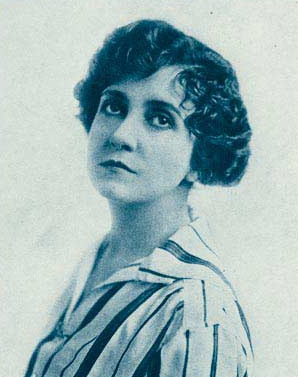 Publicity photo of Florence Turner from Who's Who on the Screen